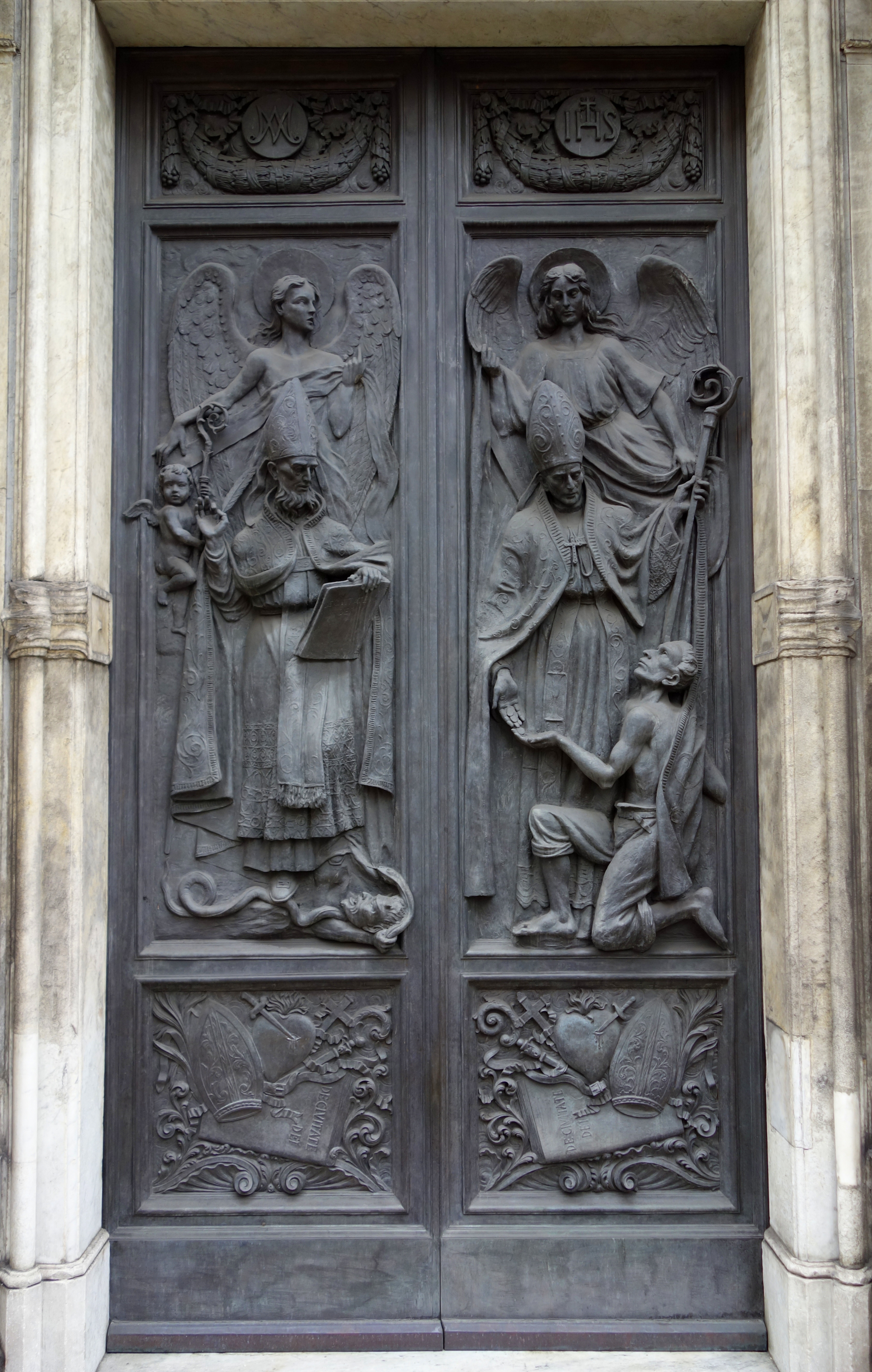 Doorway of Nostra Signora della Consolazione e San Vincenzo (Genoa, Italy). This artwork is old enough so that it is in the public domain.